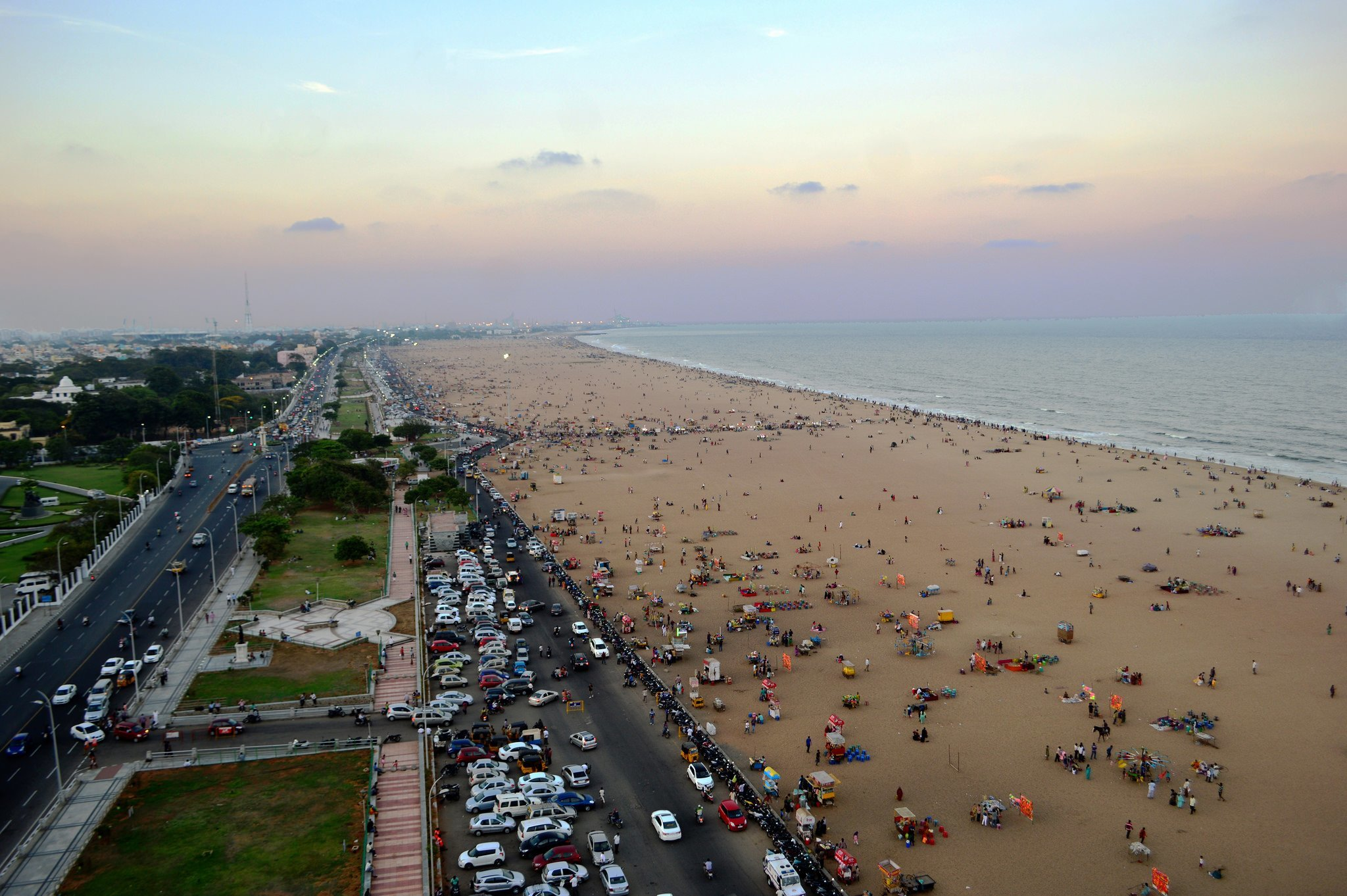 marina beach-tamilnadu